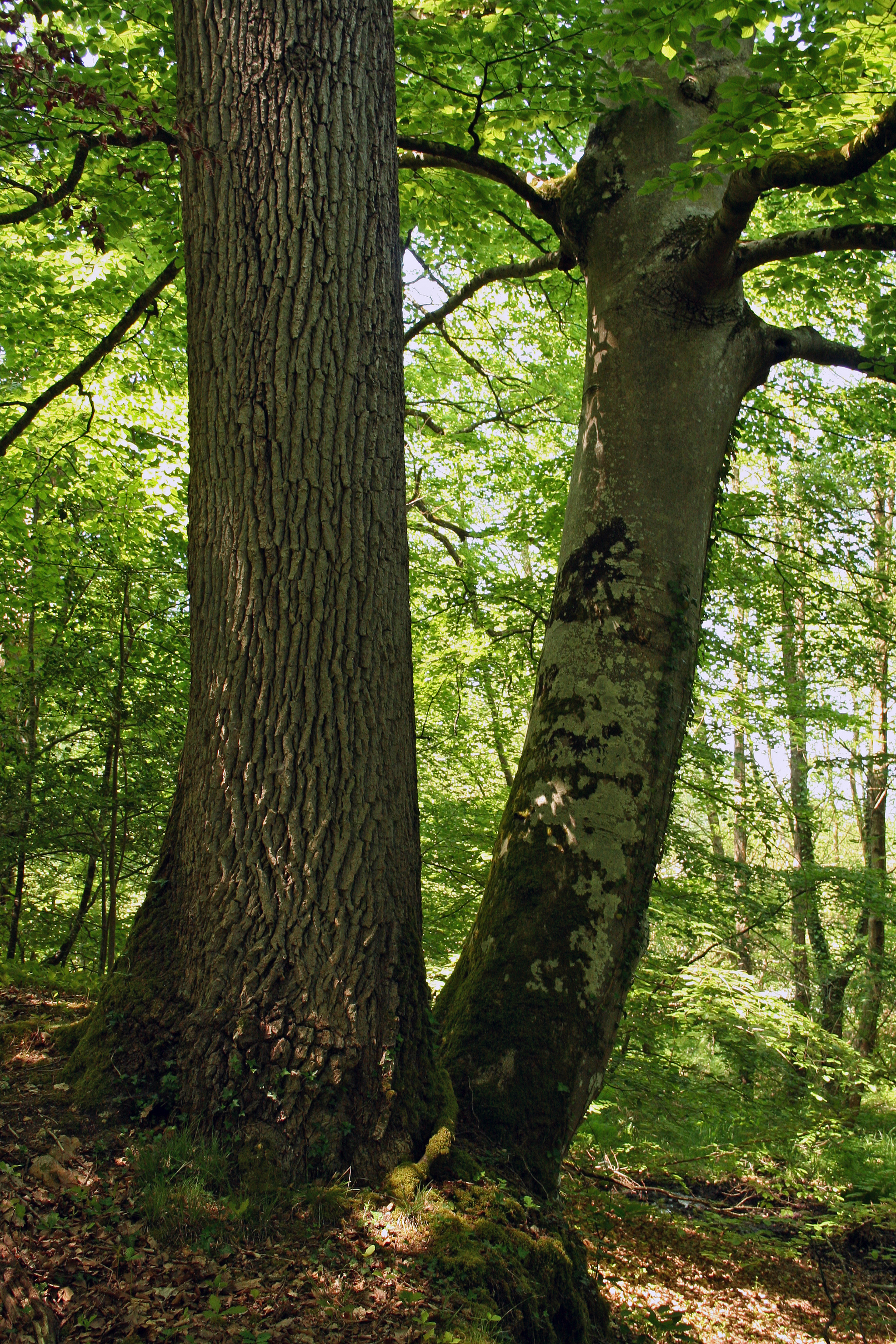 Two large individuals of two common tree species in western Europe: A Pedunculate Oak (Quercus robur), to the left, and an European Beech (Fagus sylvatica), to the right. Picture taken in the Bareilles forest, near the tiny villages of Chigné, Dénezé-sous-le-Lude and Chalonnes-sous-le-Lude, in Maine-et-Loire, France.